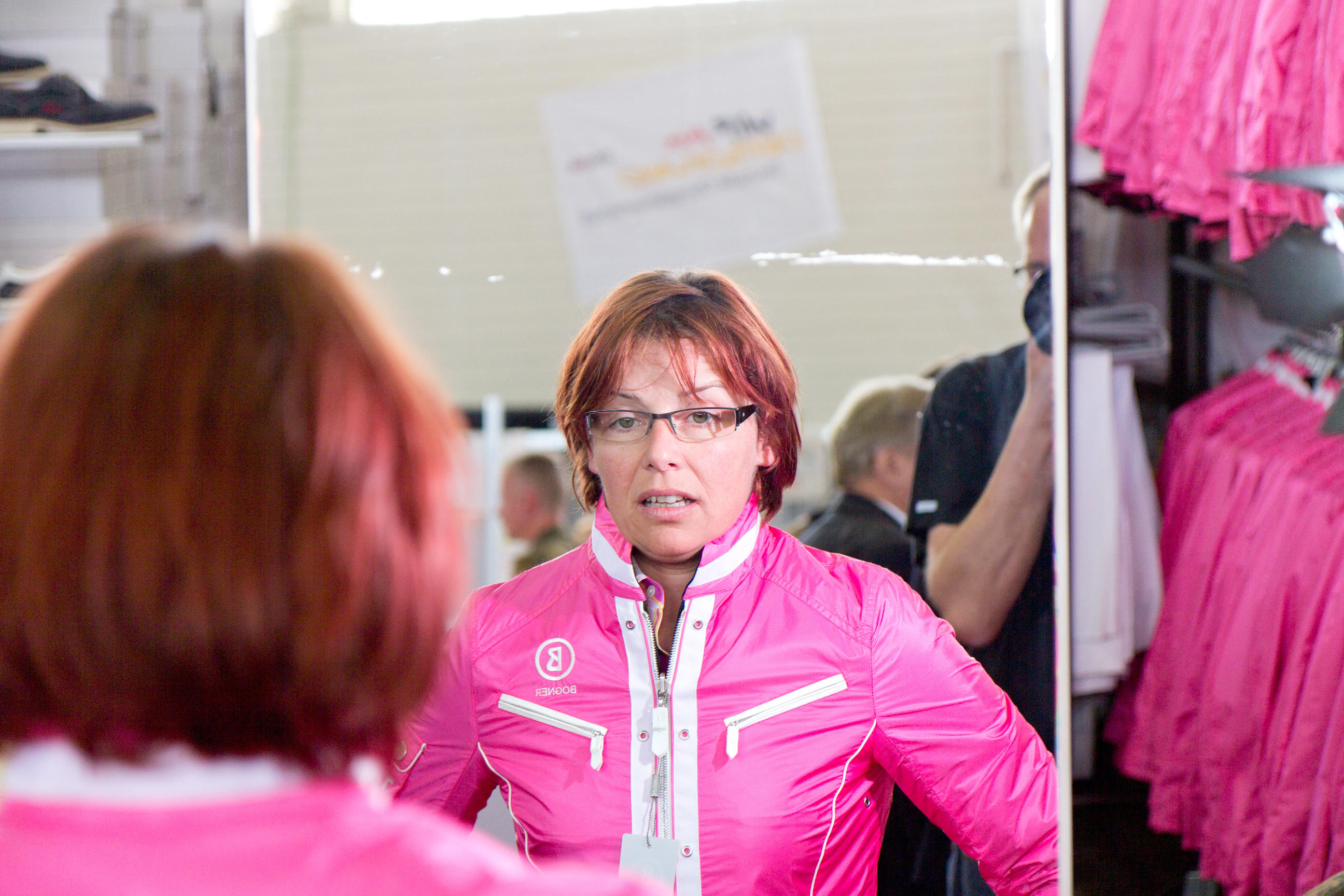 Outfitting the Olympic team of Germany 2012